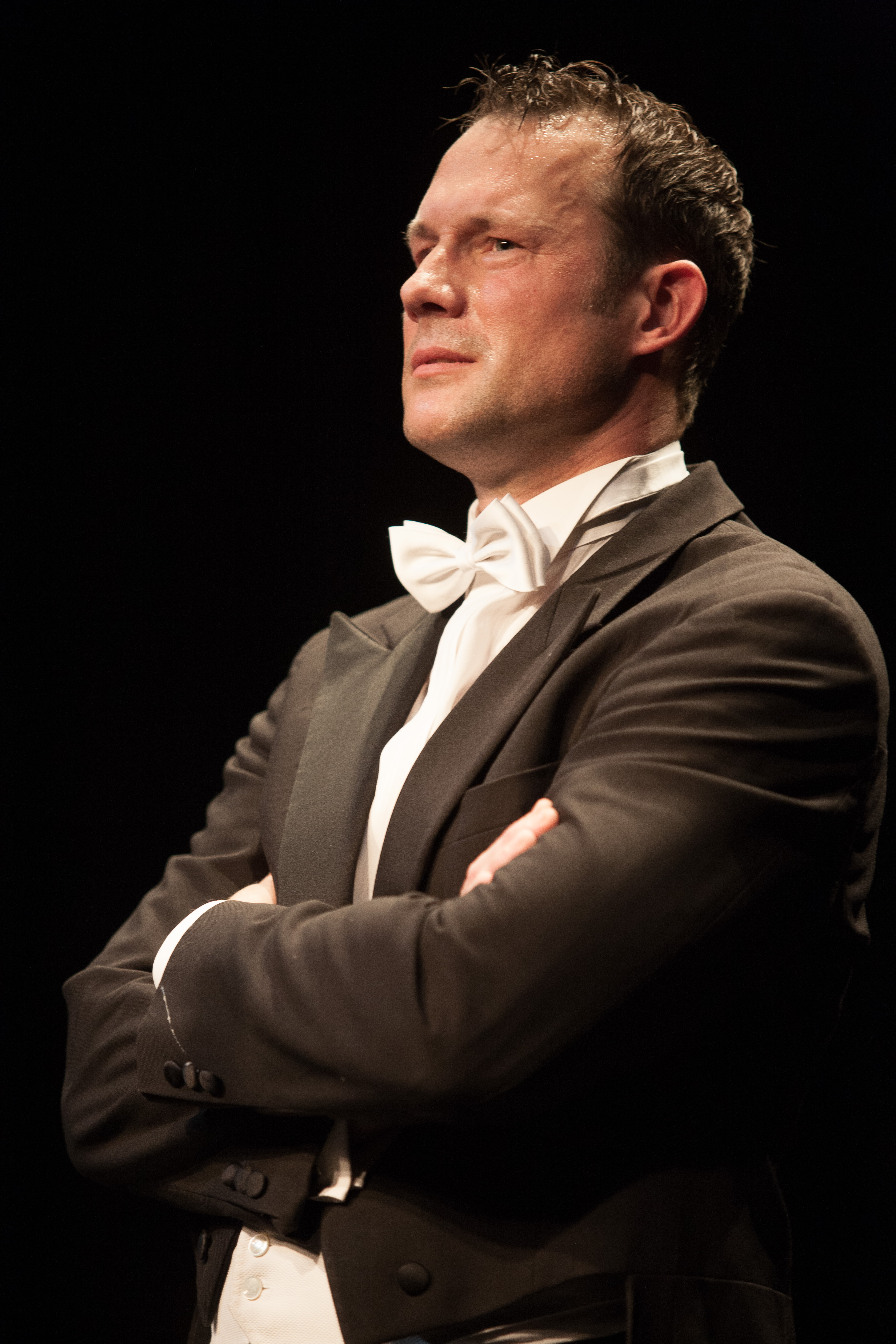 The German actor and musician Hanno Friedrich, part of the music comedy trio / program “ABBA jetzt!”, at Pantheon-Theater, Bonn